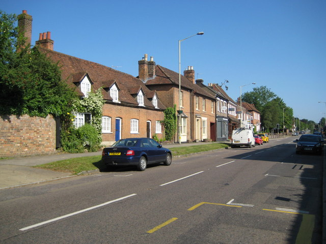 The High Street in Kings Langley, Hetfordshire , UK Kings Langley: High Street